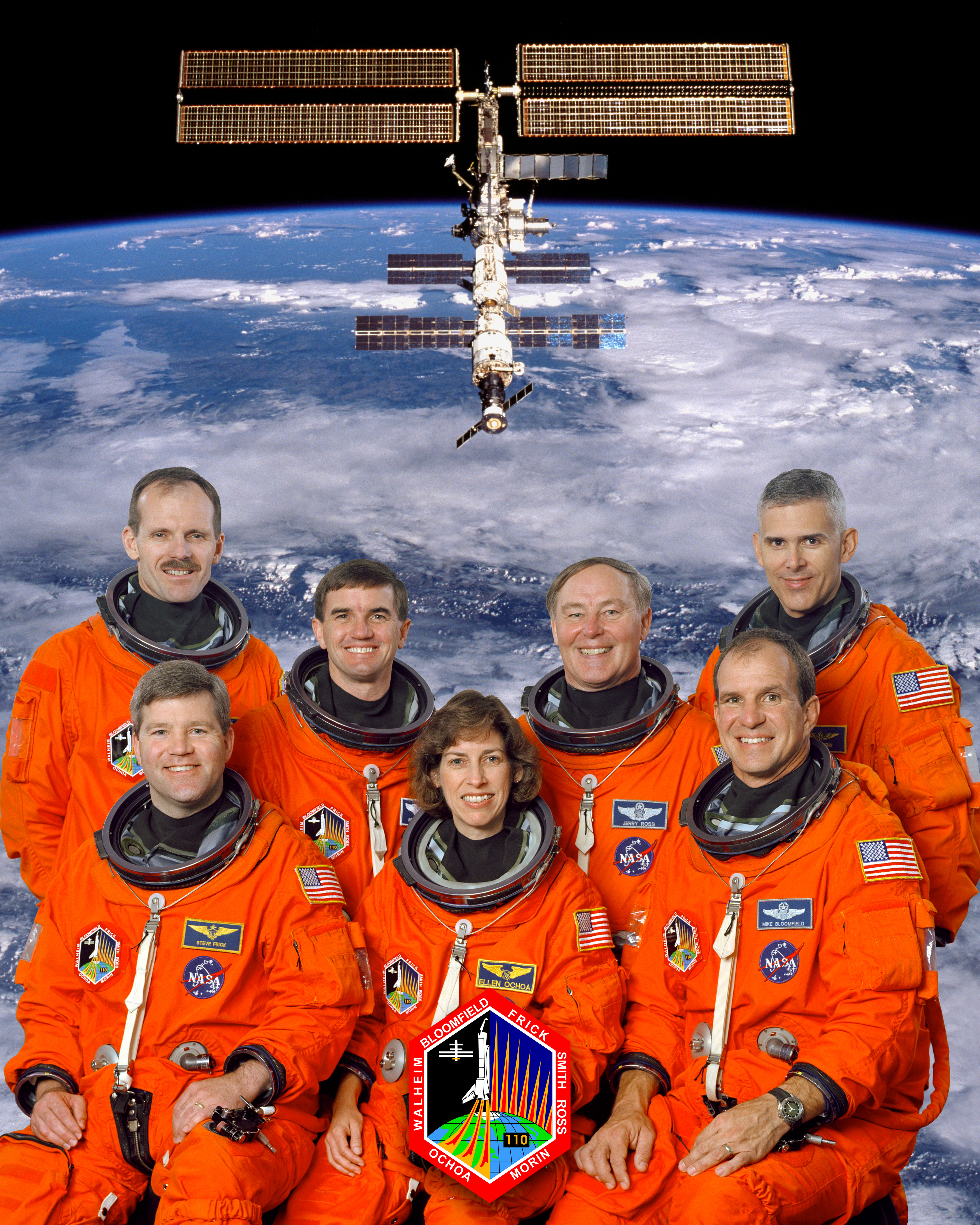 These seven astronauts are in training for the STS-110 mission, scheduled to visit the International Space Station early next year. In front, from the left, are astronauts Stephen N. Frick, pilot; Ellen Ochoa, flight engineer; and Michael J. Bloomfield, mission commander; In the back, from left, are astronauts Steven L. Smith, Rex J. Walheim, Jerry L. Ross and Lee M.E. Morin, all mission specialists.